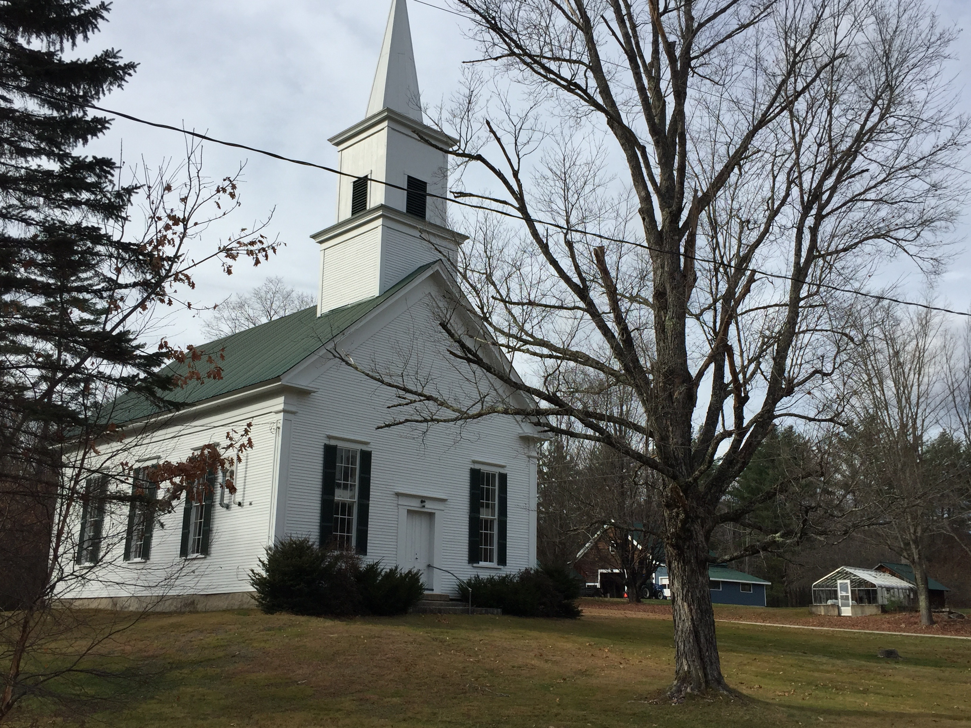 Chatham Congregational Church, center of Chatham.